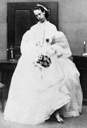 Archduke Ludwig Viktor of Austria (1842-1919)